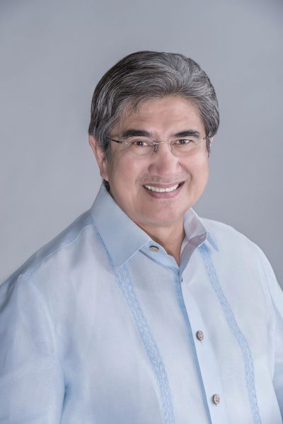 Official portrait of Senator Gregorio Honasan